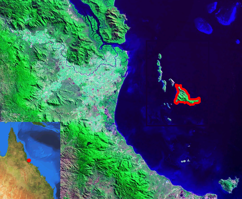 A screenshot from NASA's WorldWind program showing the Palm Islands near Townsville in Queensland, Australia. Highlighting added by me using MS Paint.